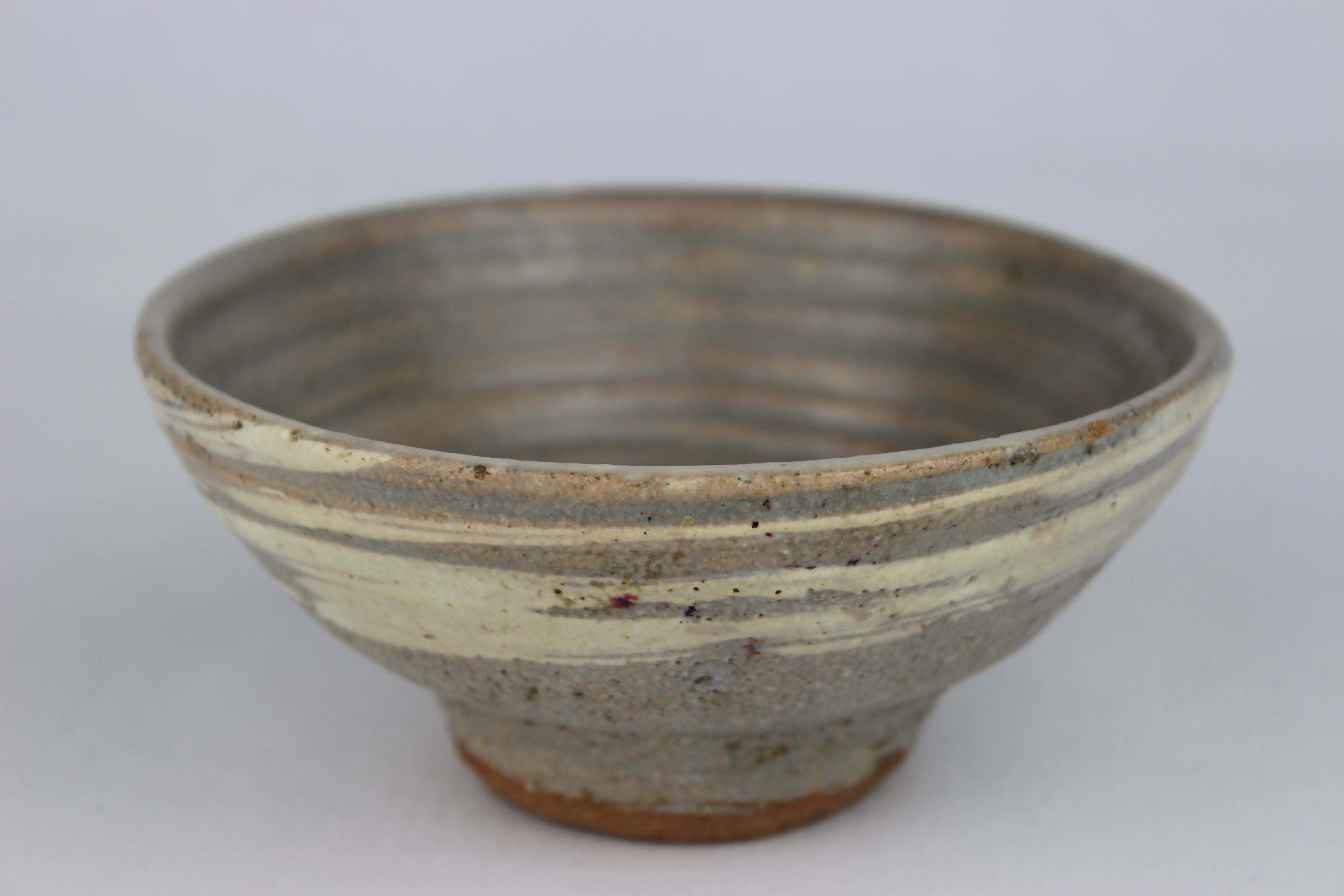 Small bowl with grey glaze and white brush decoration. From the W.A. Ismay Studio Ceramics Collection at York Art Gallery